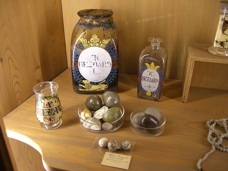 Bezoar stones on display in the German Pharmacy Museum in Heidelberg Castle.